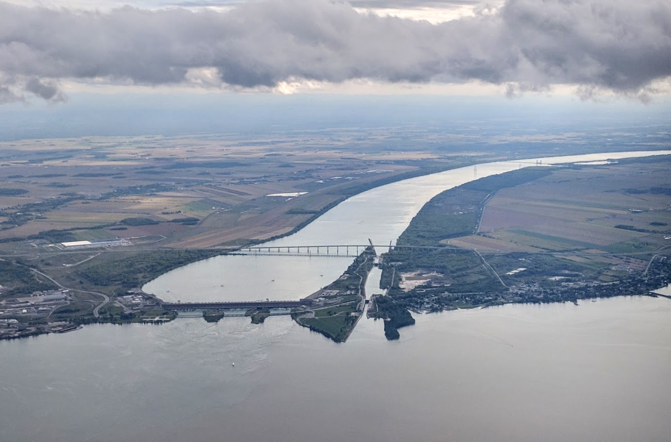 Aerial view of the Beauharnois Canal, on takeoff from Montreal